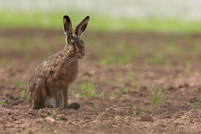 European hare (Lepus europaeus)